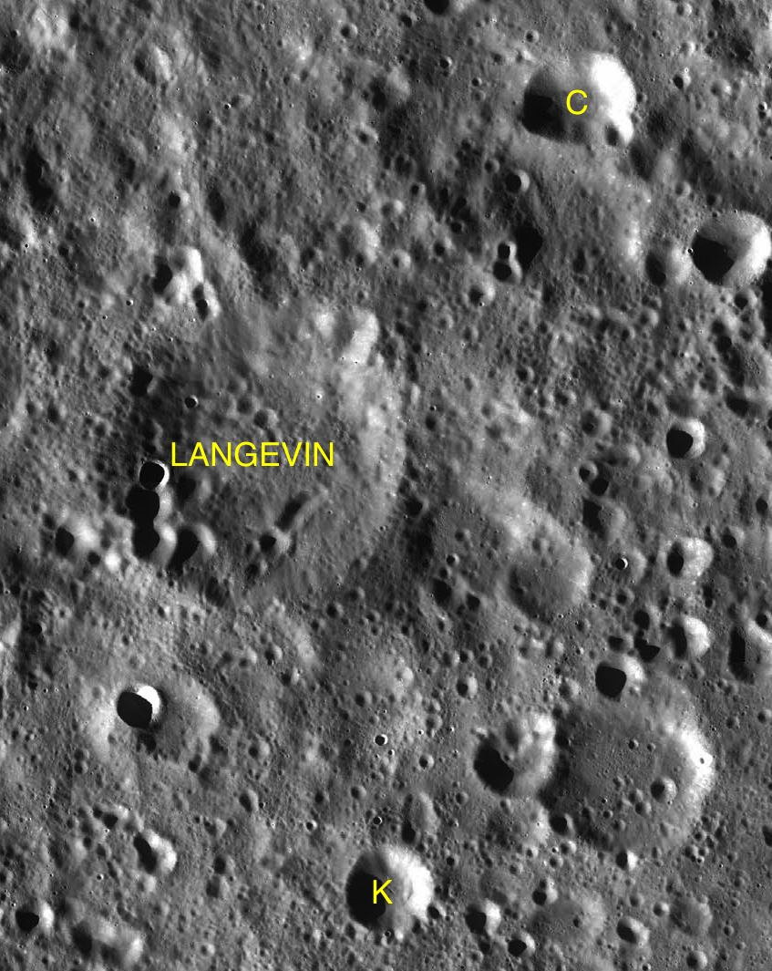 Part of the chart LAC-32 used for the presentation